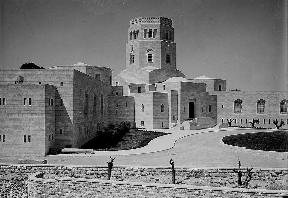 TITLE: Museum (Rockefeller) in Jerusalem. Museum. Tower & building from city wall looking N. closer vi[ew].